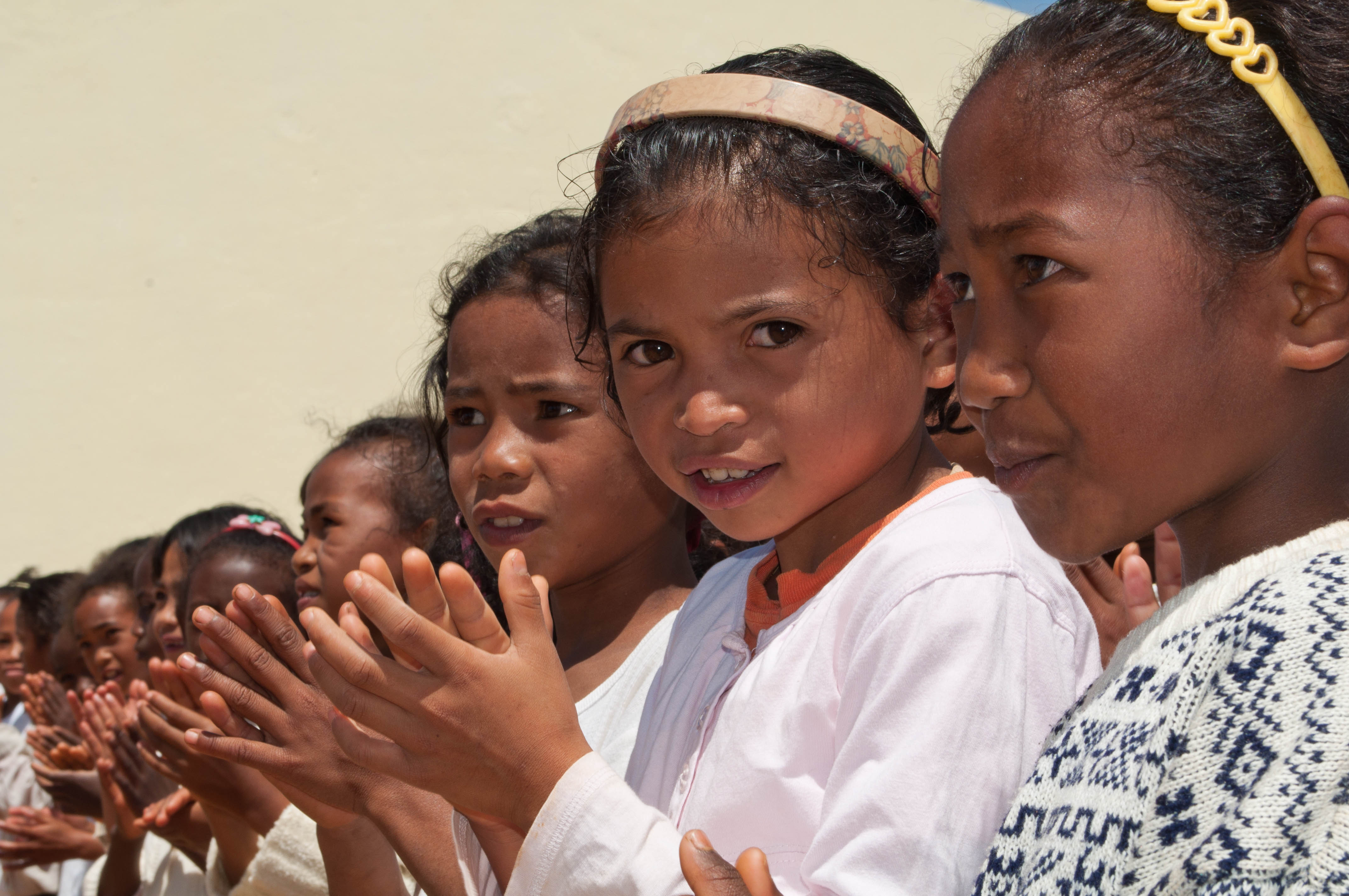 Merina girls of highland Madagascar